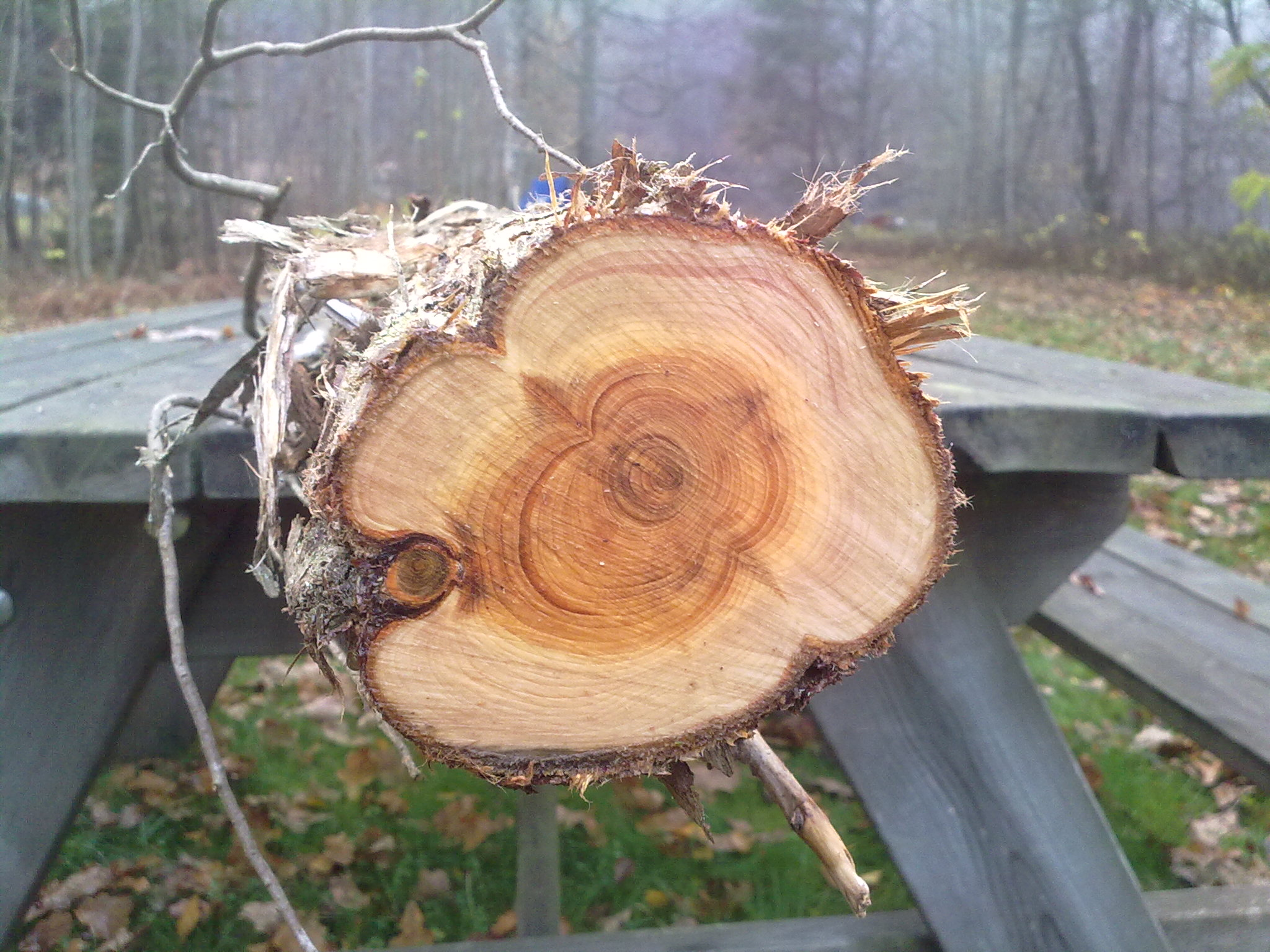 Cut through a Common Juniper Juniperus communis; note the poor circuit uniformity (incomplete growth rings) typical of juniper wood. Algunnen, Högsby, Sverige.